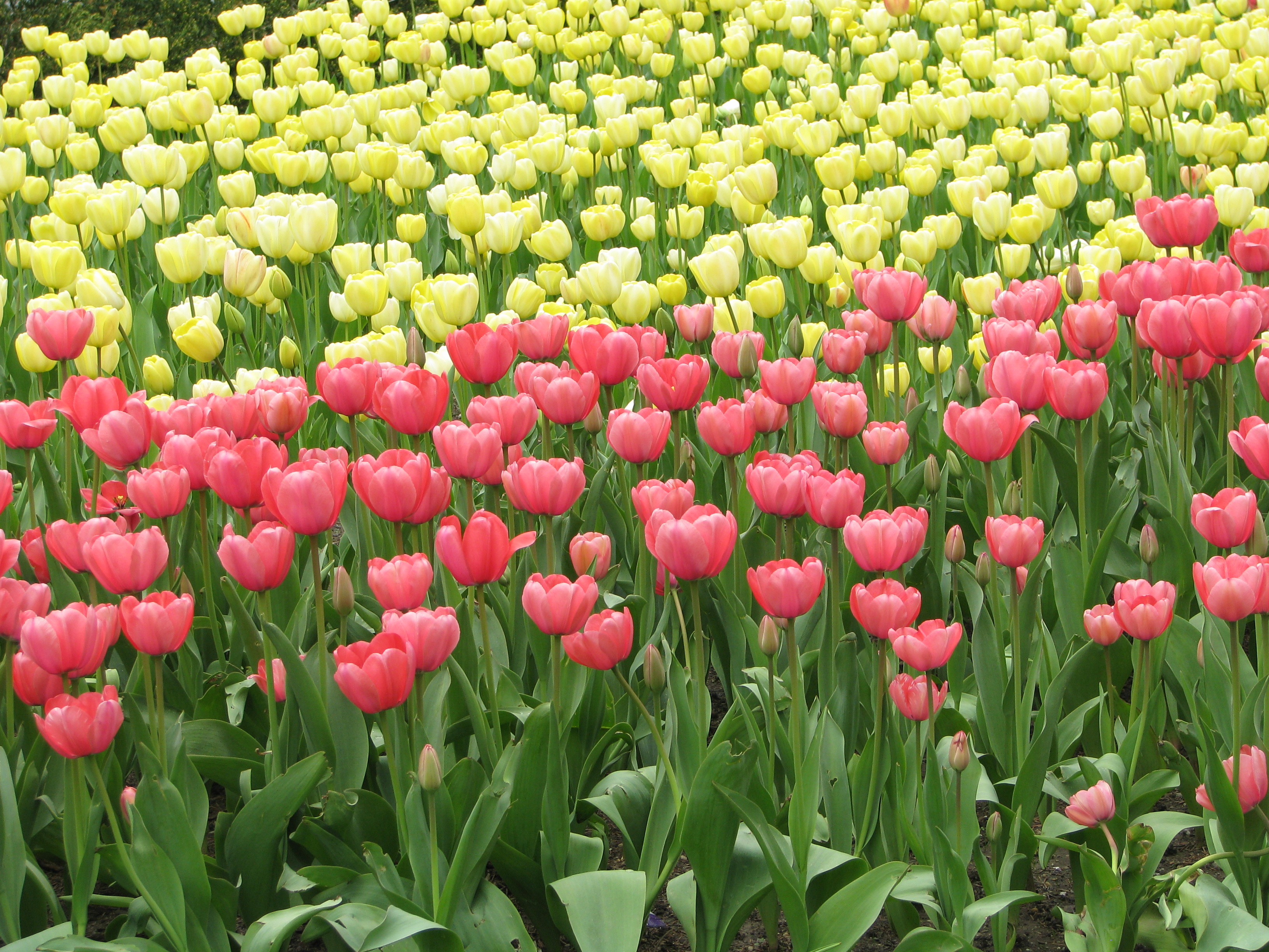 Tulip flowers in New York's Central Park